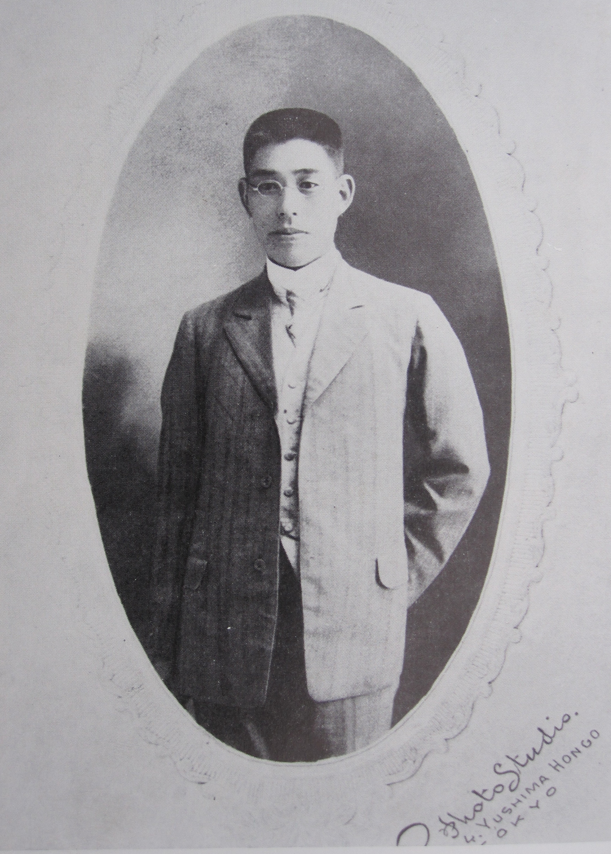 Photo,reprint from Nishikawa Akiji no omoide